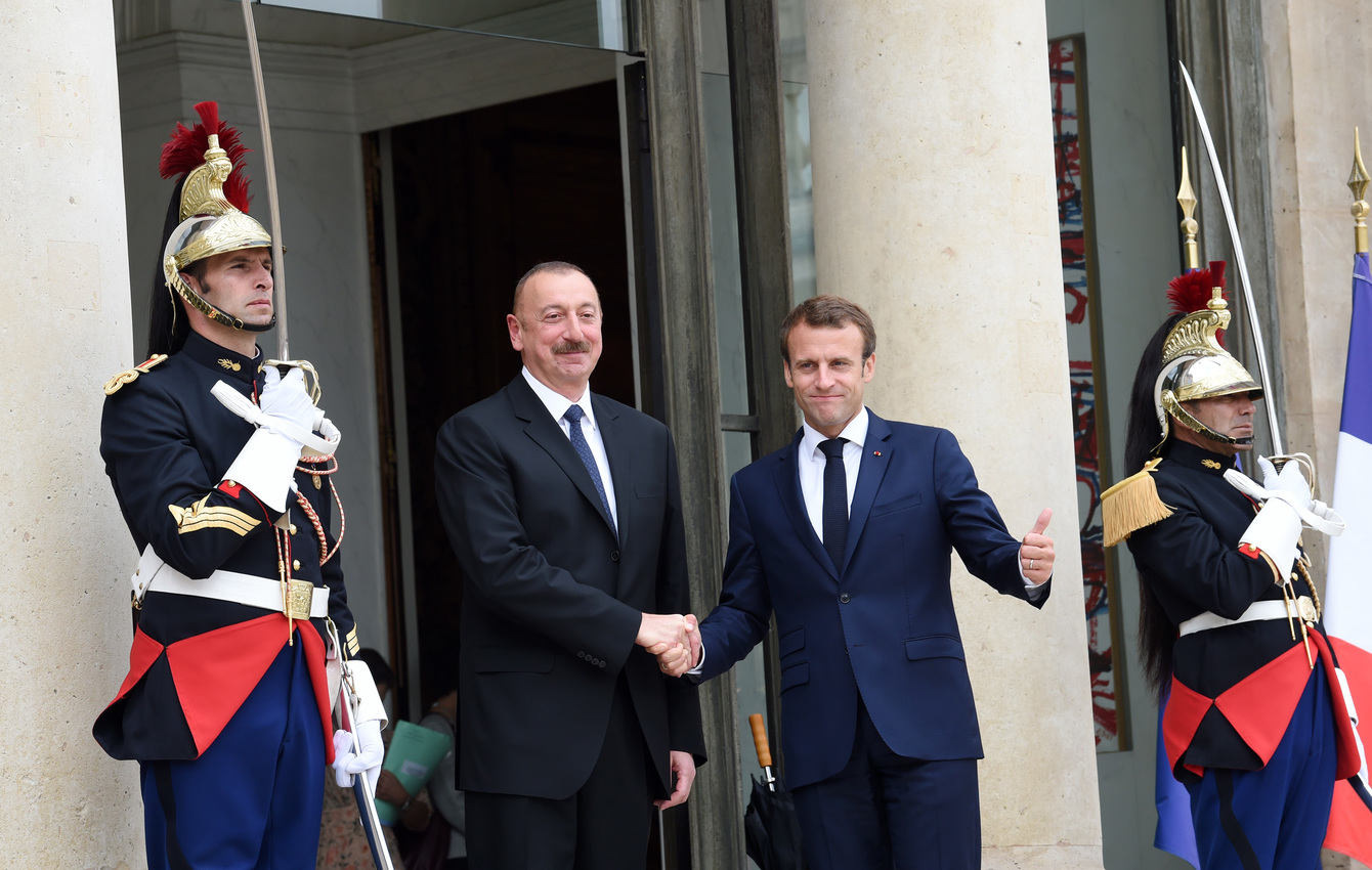 Ilham Aliyev met with French President Emmanuel Macron